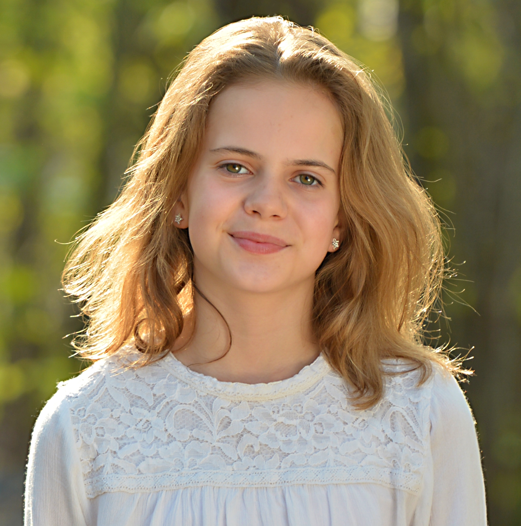 Karolina Lipowska profile photo from 2017